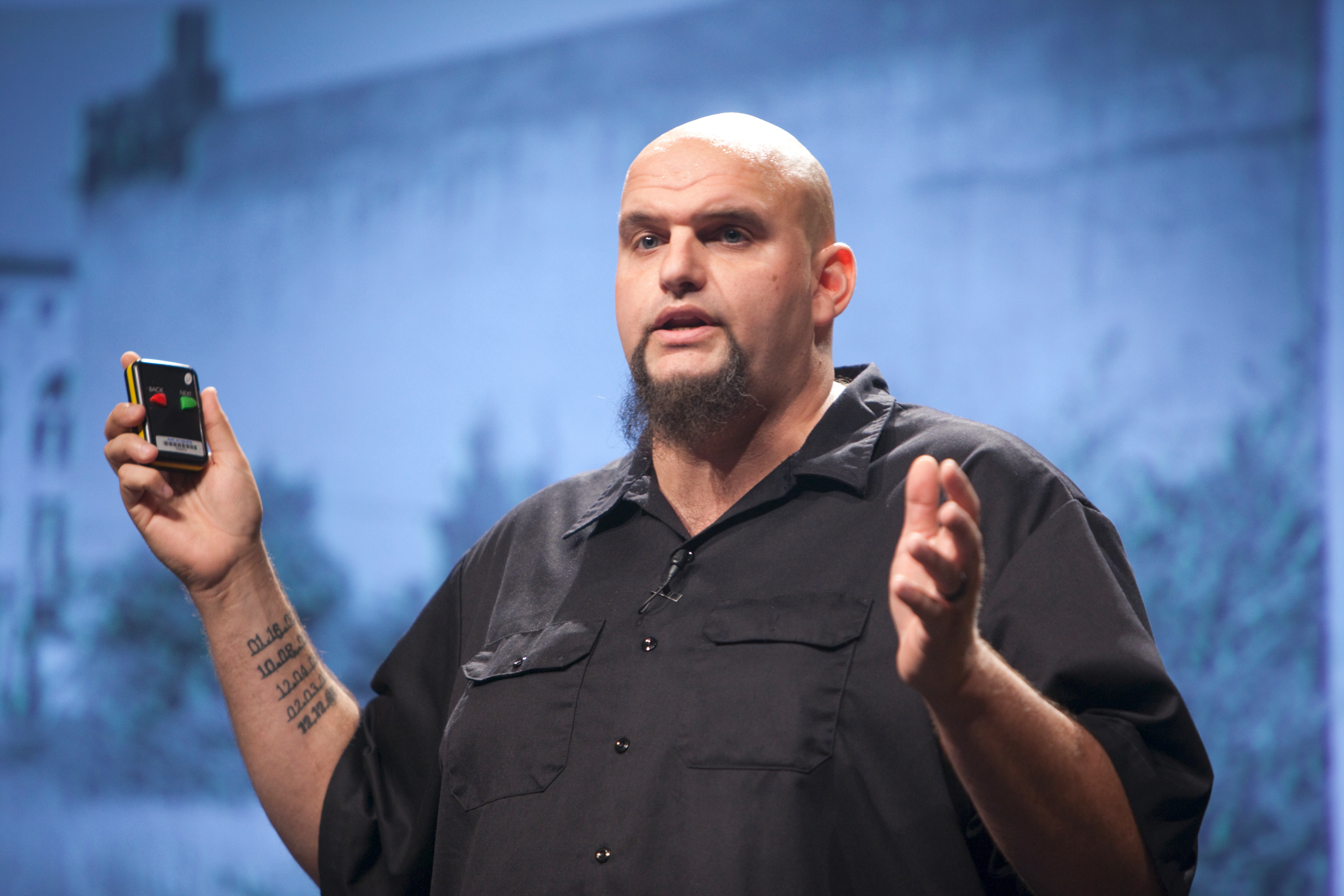 photo by Kris Krüg